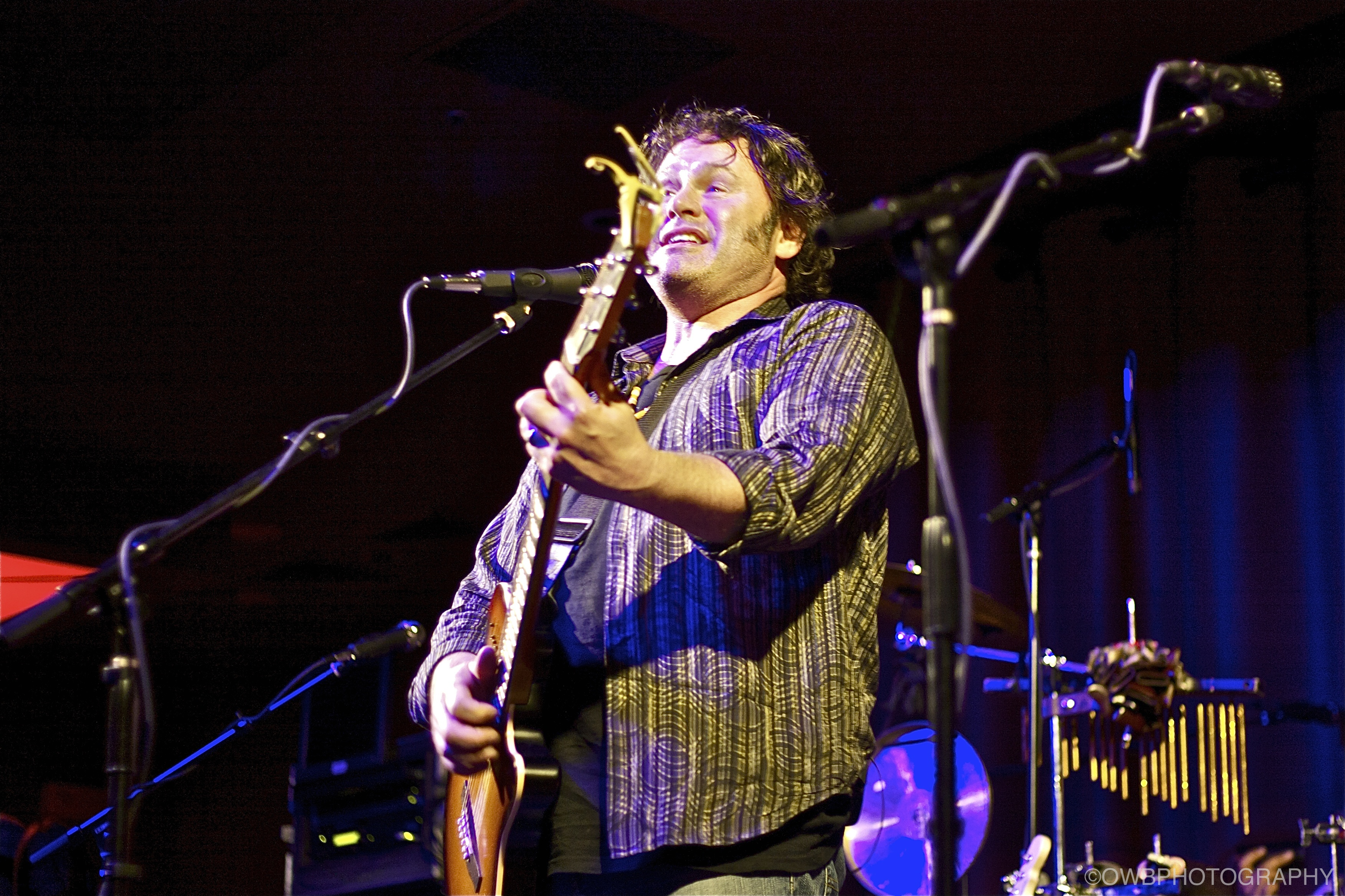 Martin Sexton, in concert with the Ryan Bleaumont Band in 2010